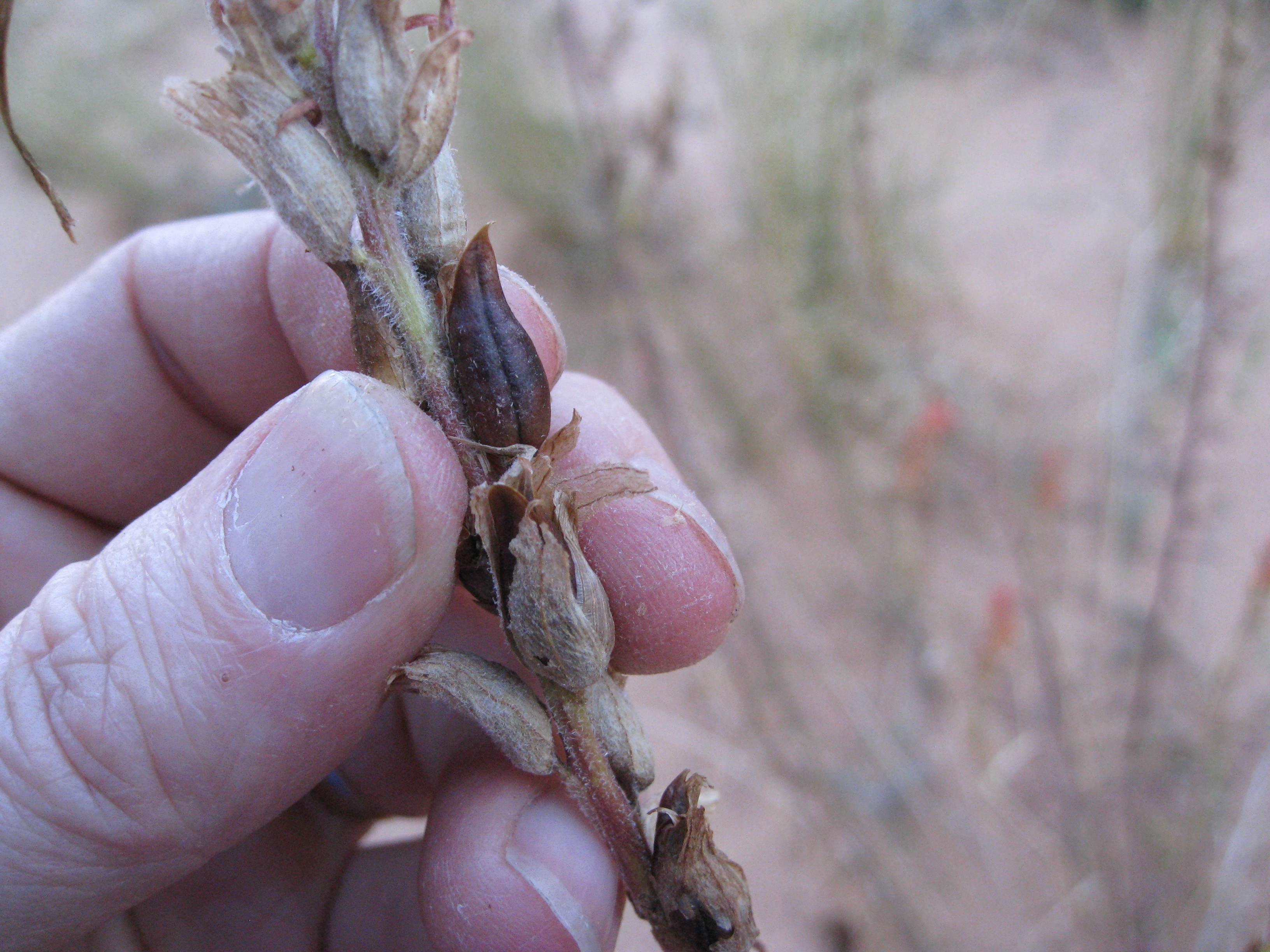 Castilleja linariifolia seen while walking through Cohab Canyon, Capitol Reef National Park, Utah gc 029